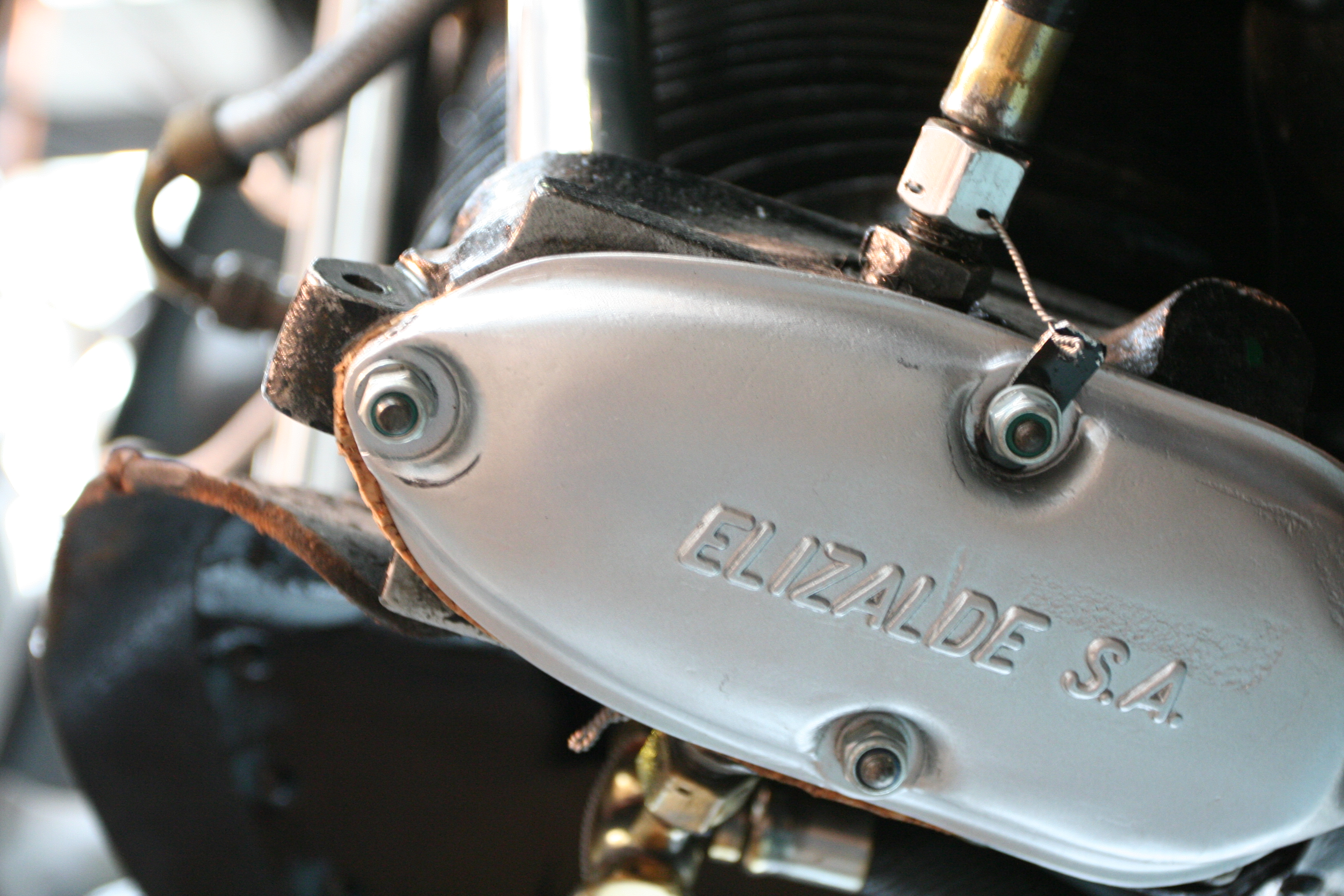 A detail of an ENMA Beta B-4, licence-built BMW 132 built by Elizalde s.a.